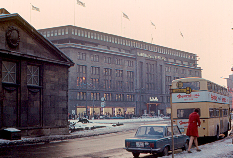 Kaufhaus des Westens (literally, department store of the west) is the largest store on the Continent. It is exceeded in size in Europe only by Harrod's (London). It is familiarly know as KaDeWe. I have visited the store at least once every time I went to Berlin. Kaufhaus des Westens was founded in 1905, and this building was opened in 1907. The name probably came from the store was located west of the Berlin's center, in an area that grew rapidly in the early 20th century. The building was destroyed in World War II, The store was partially re-opened in 1950, and rebuilding was completed in 1956. A portion of the Wittenbergplatz U-Bahn station is in the left foreground.